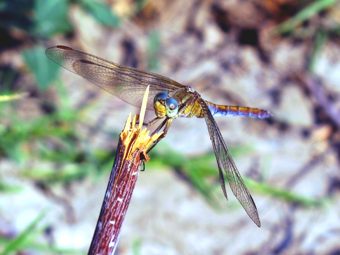 Dragonfly in Khachmaz District. Samur-Yalama National Park 9